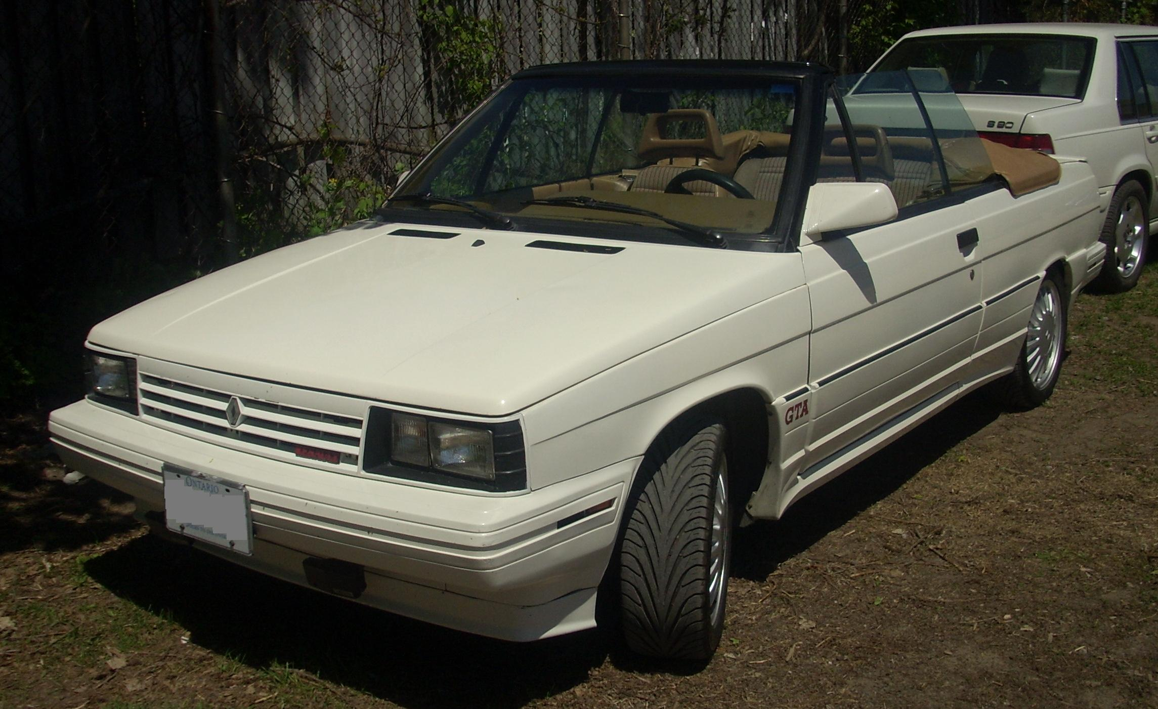 1987 AMC GTA Convertible photographed at the 2008 Hudson British Car Show.